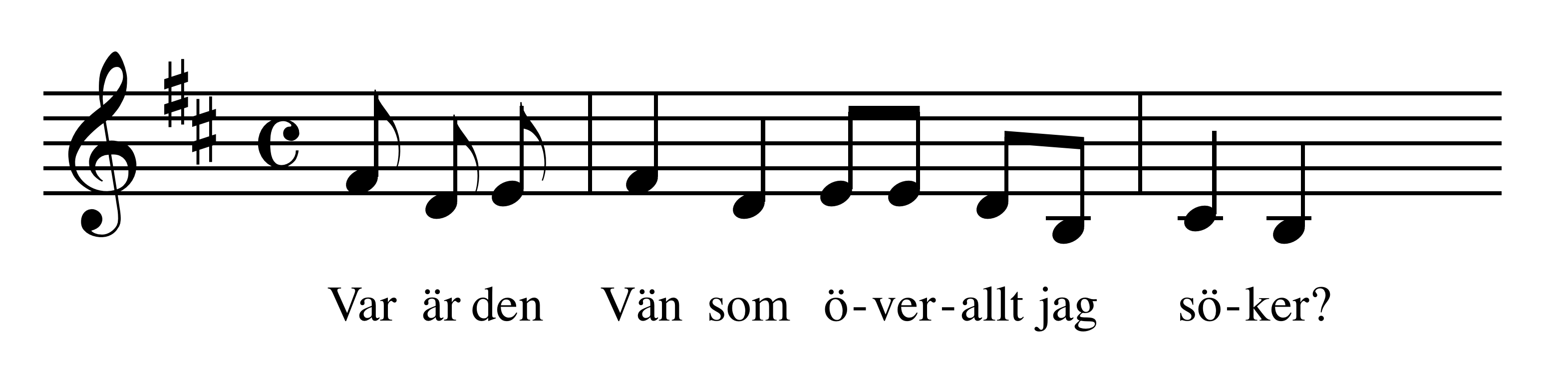 Var_är_den_vän_(Mora)